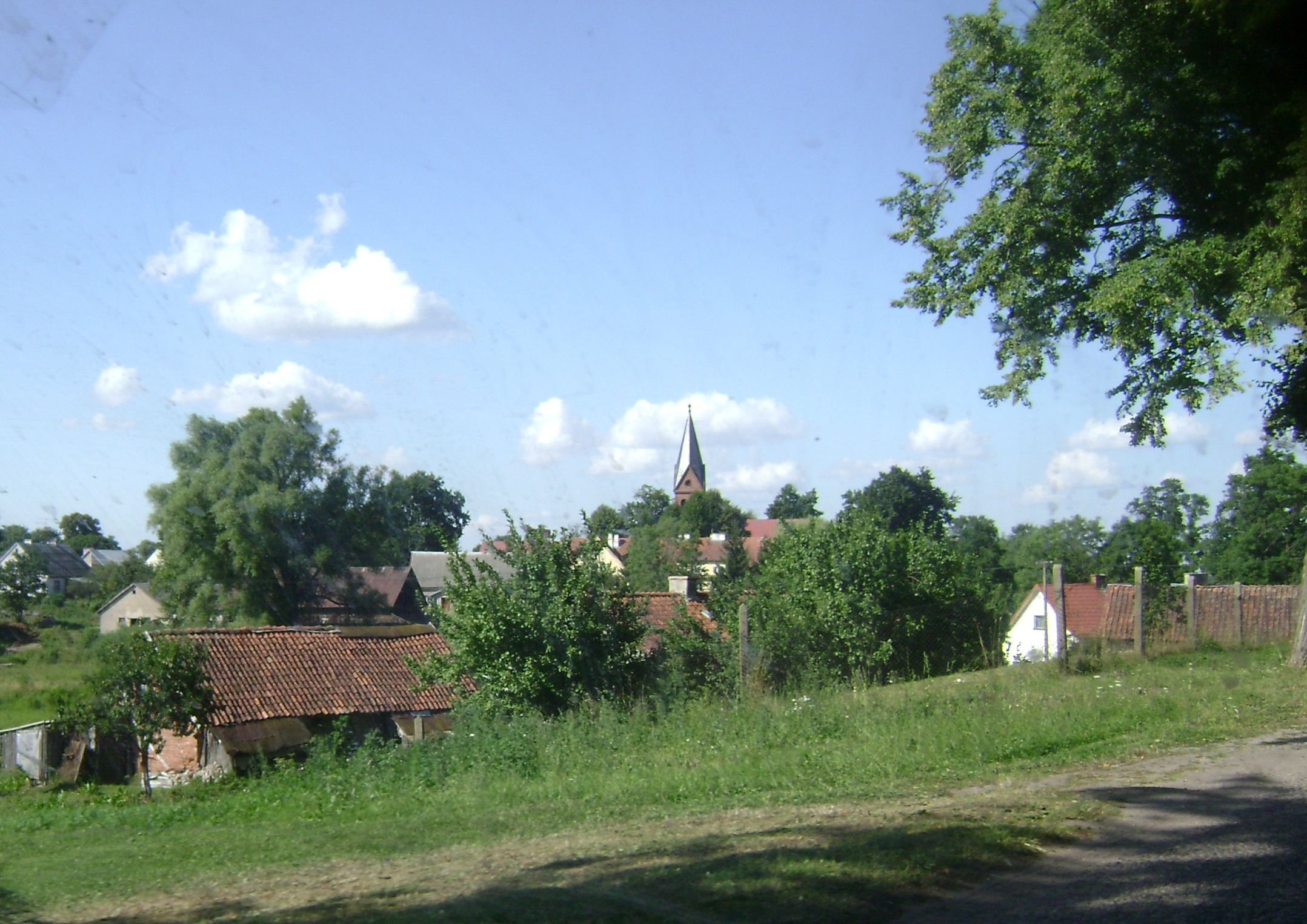 Sterławki Wielkie